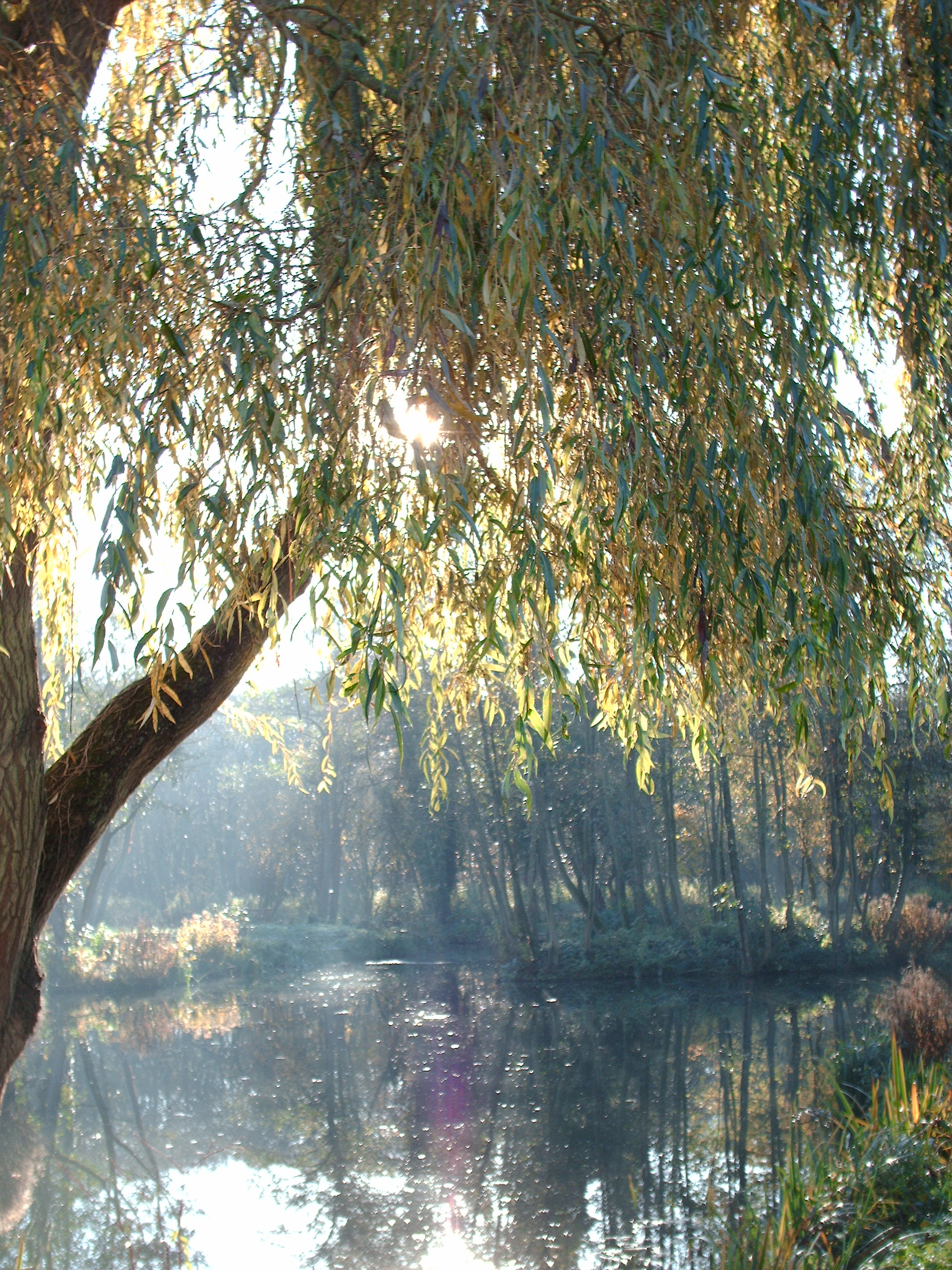 Dilham fishery.